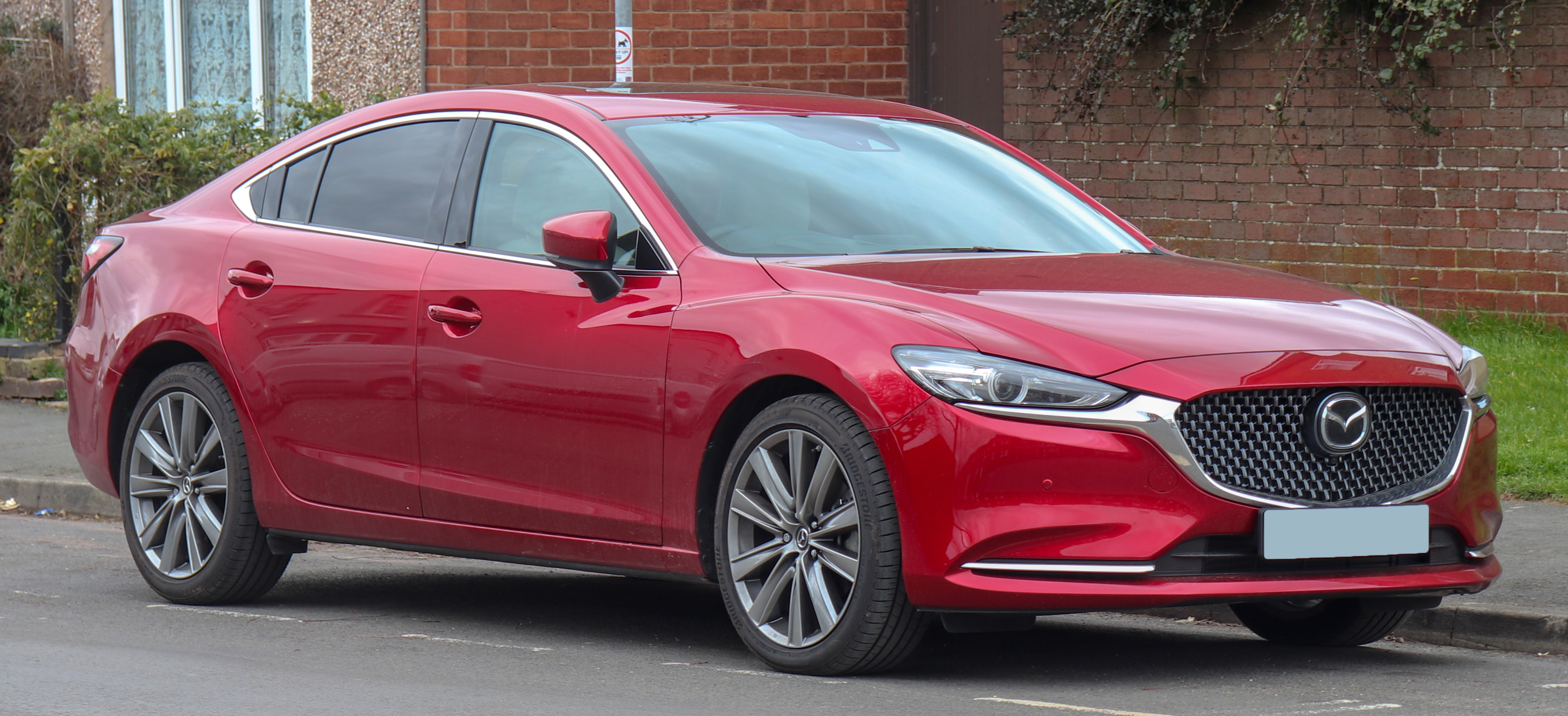 2018 Mazda6 Sport NAV+ Diesel 2.2 Front Taken in Warwick